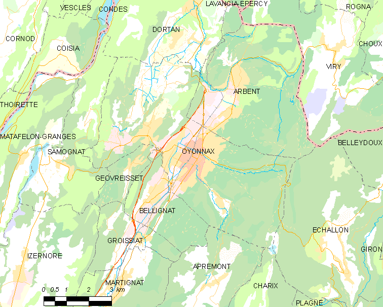 Map of French commune: Oyonnax Map commune FR insee code 01283.png